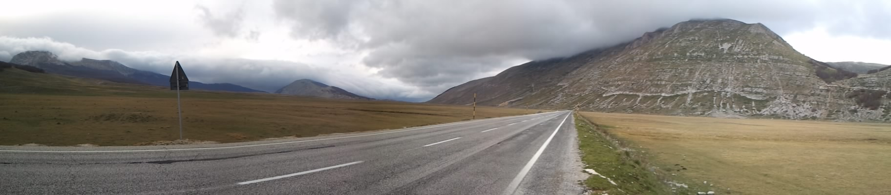 View of the meridional part of Campo Felice plain